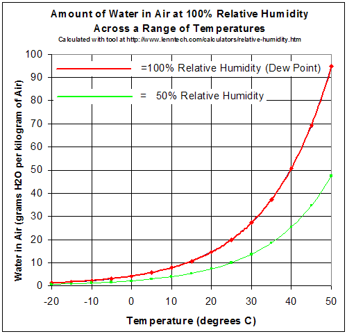 This image shows relative humidity and dew points across a range of scales I built this image with calculations done on the site GregBenson 20:16, 4 May 2007 (UTC)